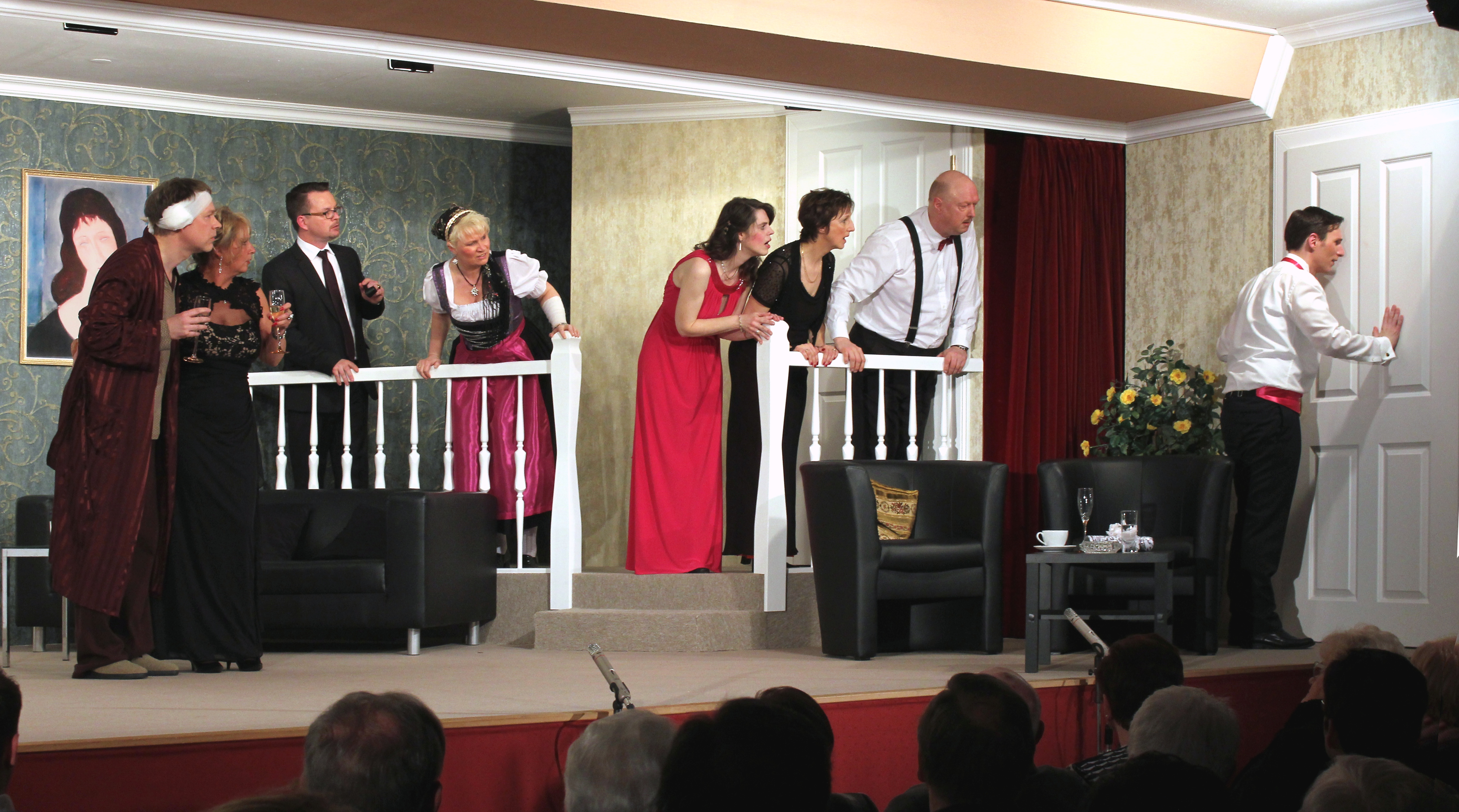 Final scene from Rumors by Neil Simon; performance of the Kolping theatre group Kärlich, Mülheim-Kärlich.